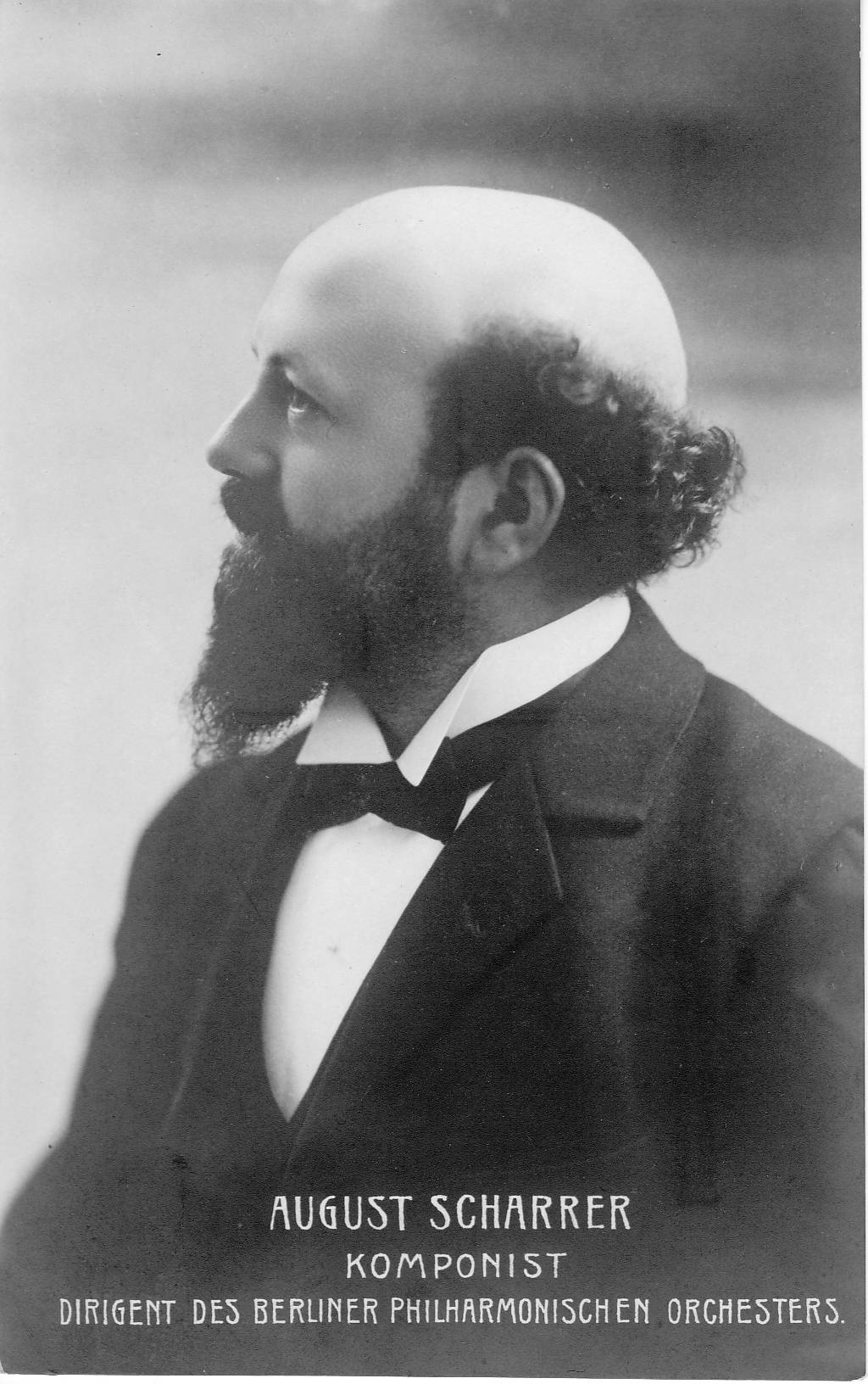 Portrait of August Scharrer from 1904